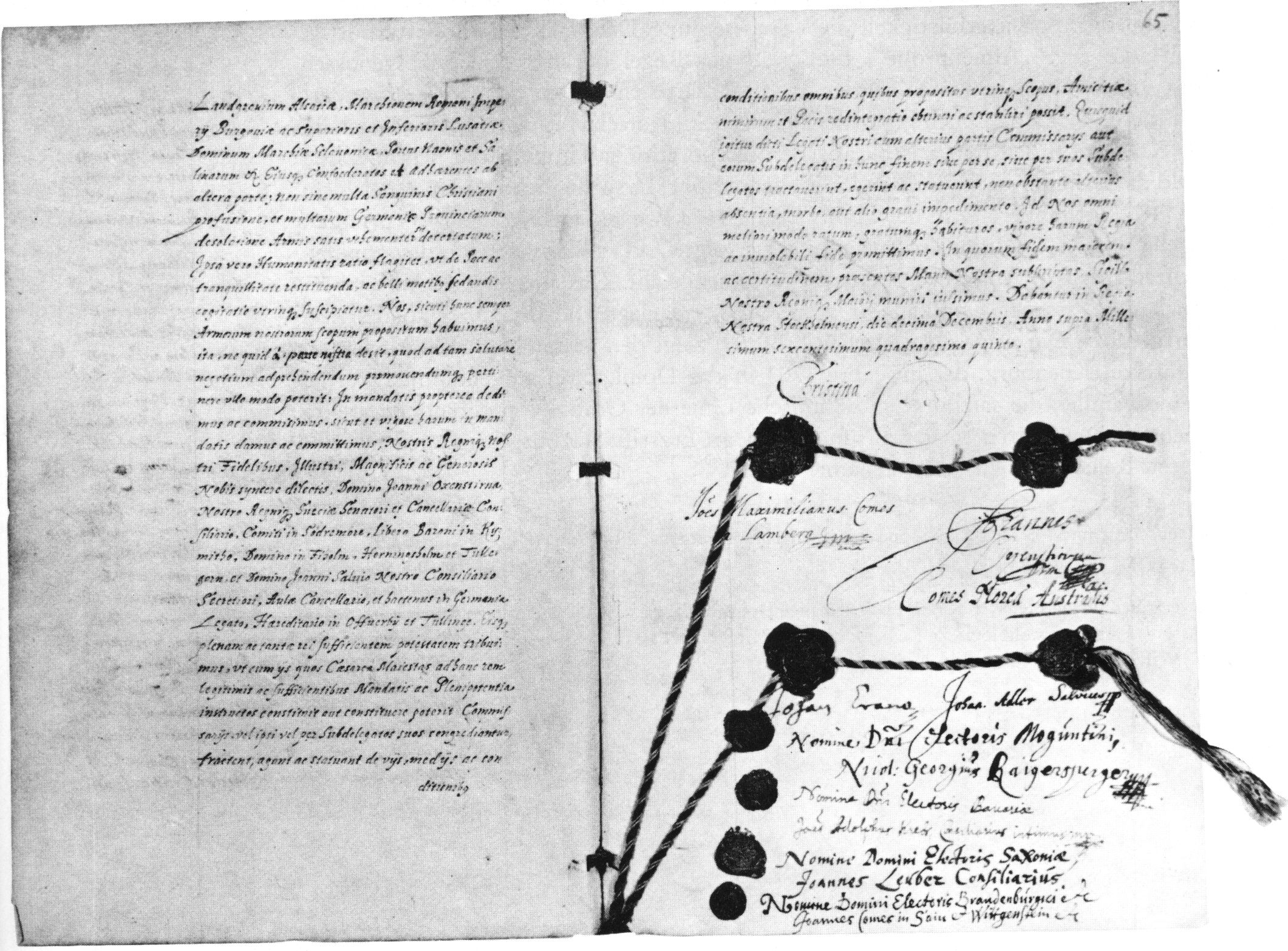 The Peace of Westphalia. Treaty of Osnabrück. Copy of 1649 for Elector-Duke Maximilian of Bavaria. Seals of the imperial and Swedish envoys and of the envoy of Mainz. München, Bayerisches Hauptstaatsarchiv, Kurbayern Urk. 1698.